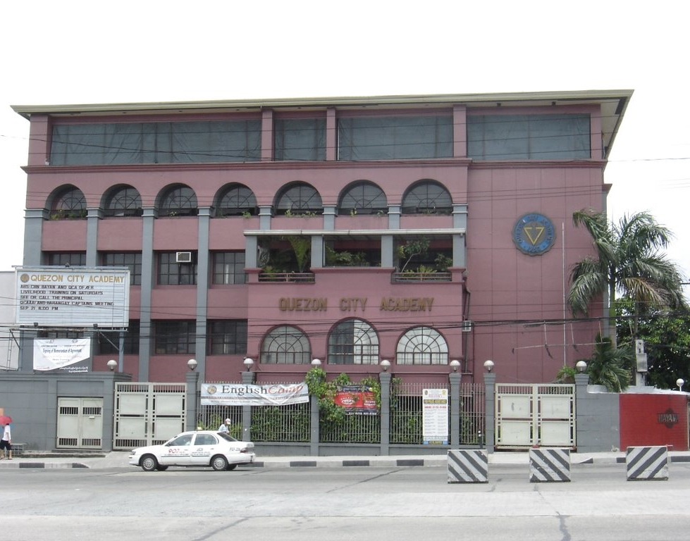 This picture will be used to represent the campus of Quezon City Academy.